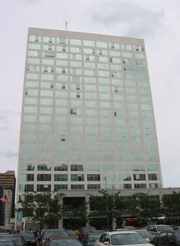 L'esplanade Laurier, Ottawa, ON, CDN, August 2004